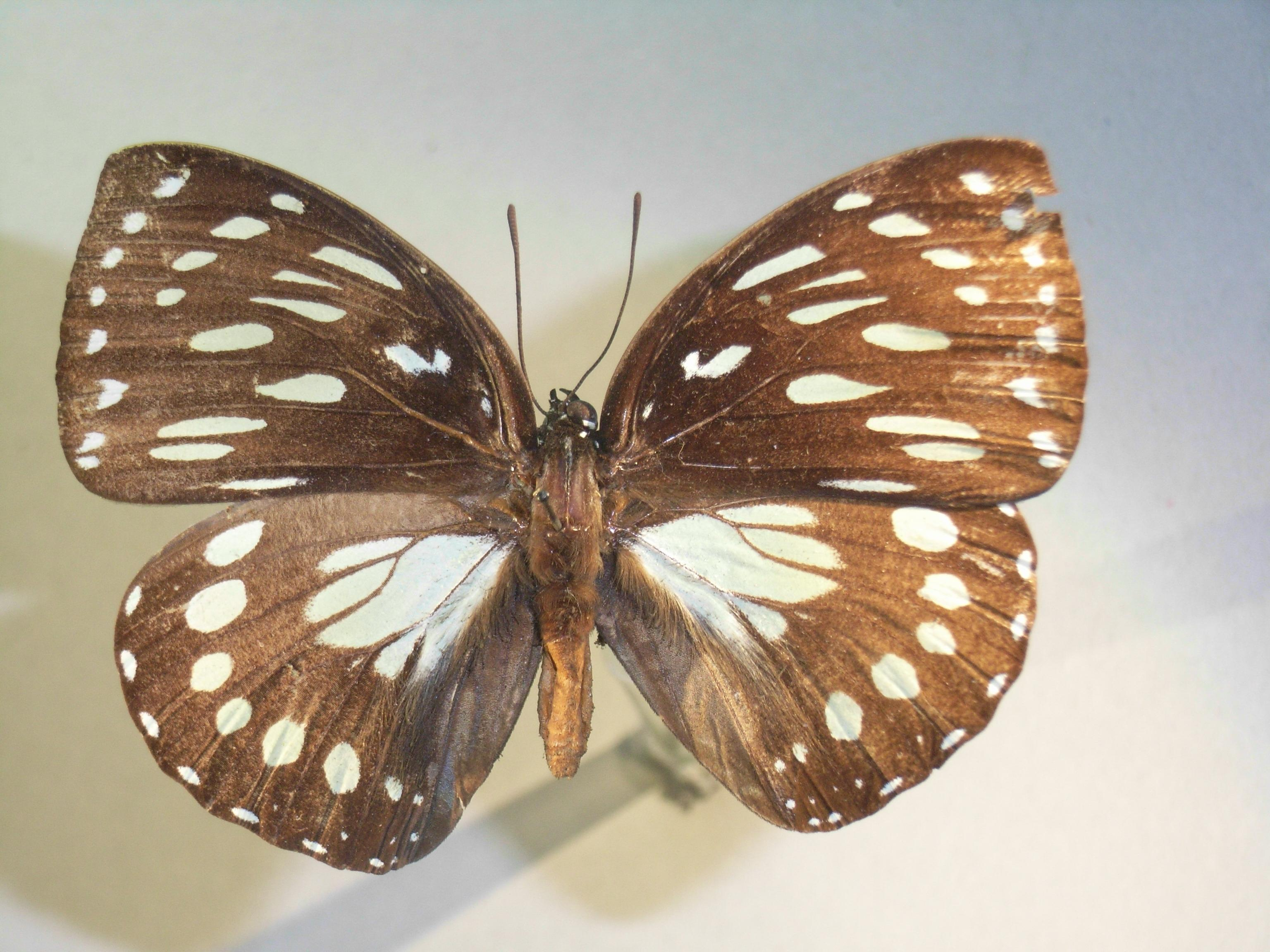 Euxanthe Hypomelaena eurinome:Charaxinae:Nymphalidae